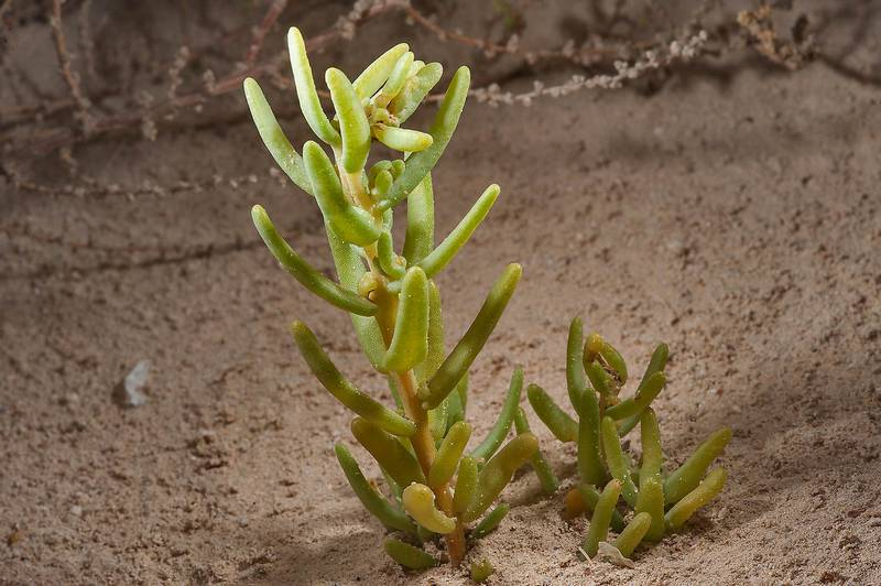 The cylindrical succulent-like leaves of the B. cycloptera plants are shown. It is coming out of the sand near Salwa Road in Abu Samra, near Saudi border in Southern Qatar.